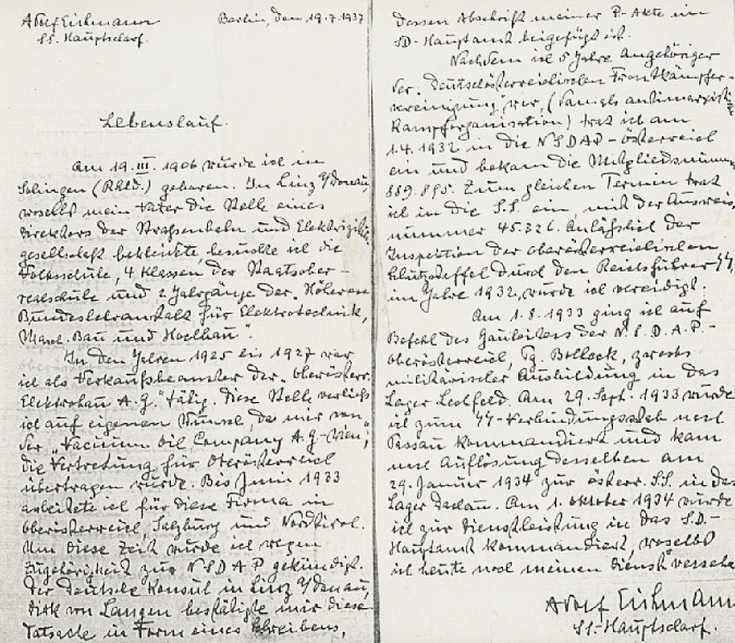 Copy of Adolf Eichmann's appoint order as an SS officer